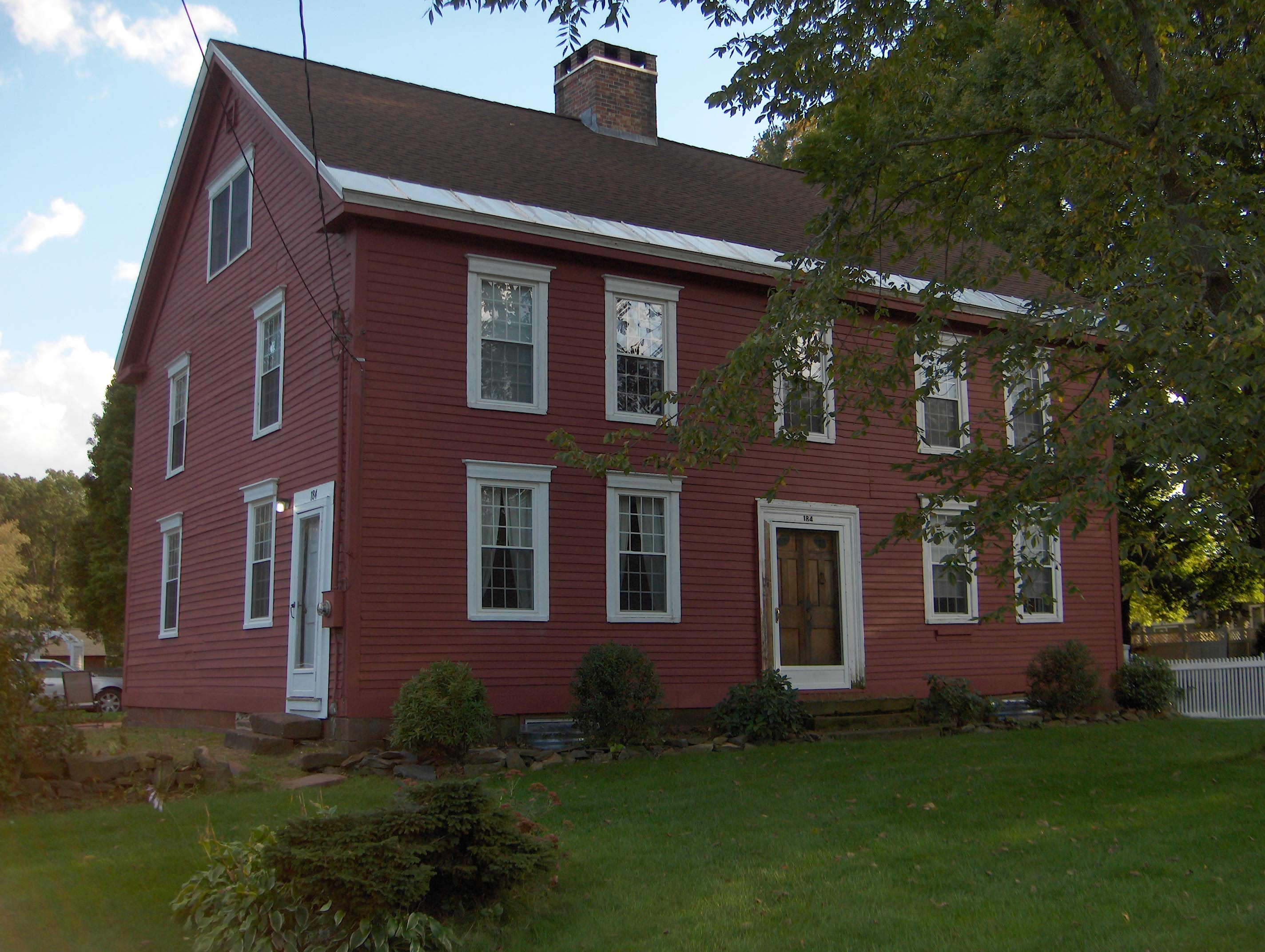 Residence of Capt. Josiah Cowles one of the early settlers of Southington CT USA. The building is Colonial style architecture.